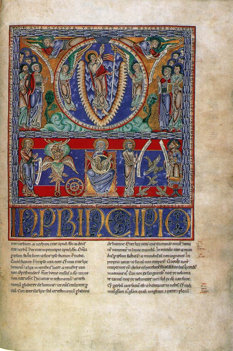 The Floreffe Bible, Meuse valley, southern Netherlands, middle or 3rd quarter of 12th century, 475 x 330 mm.